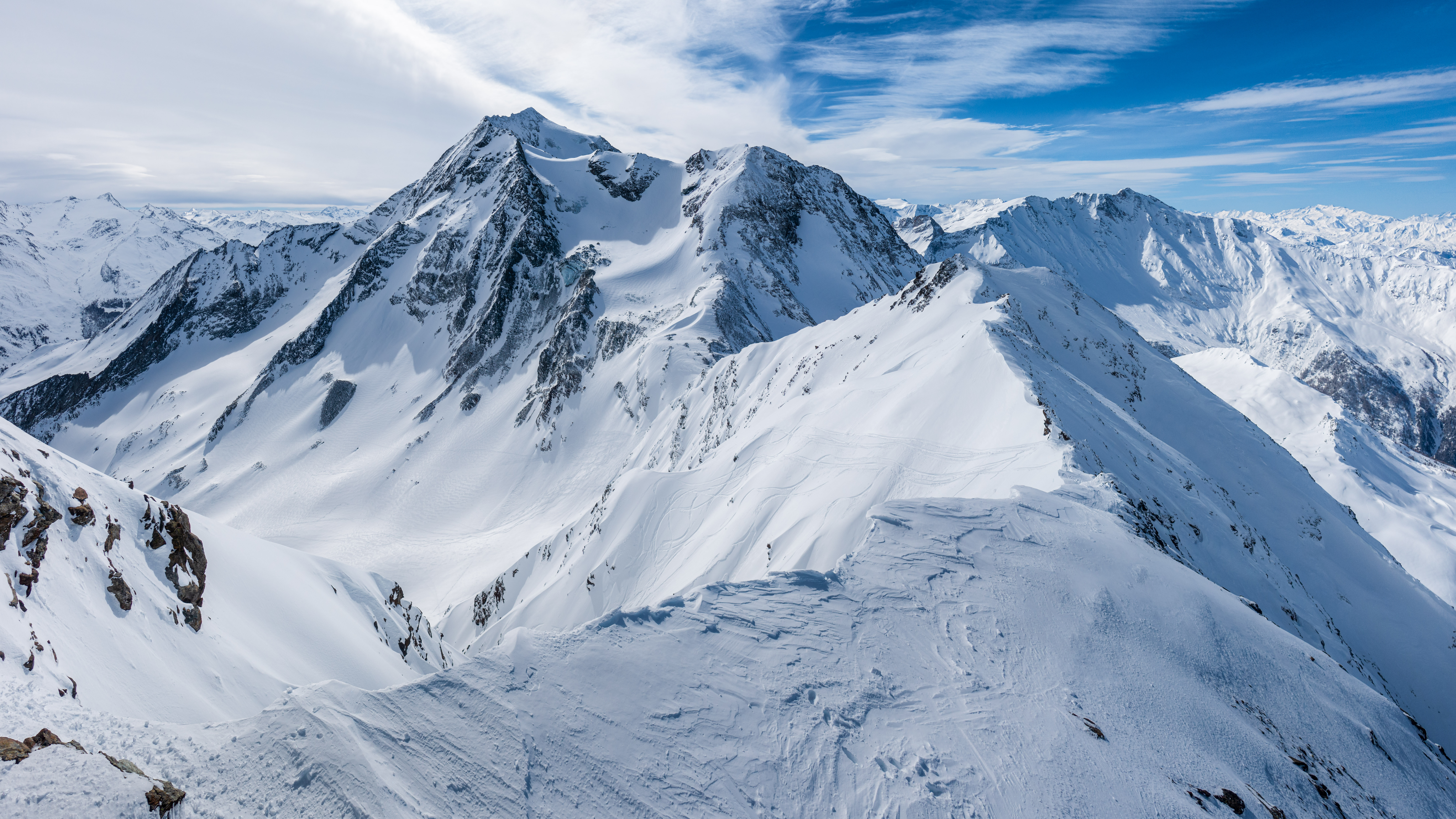 Looking south at the Mont Pourri (3779m) from the Aiguille Rouge platform of Arc 2000 ski resort, at winter season, in Savoie department, France.